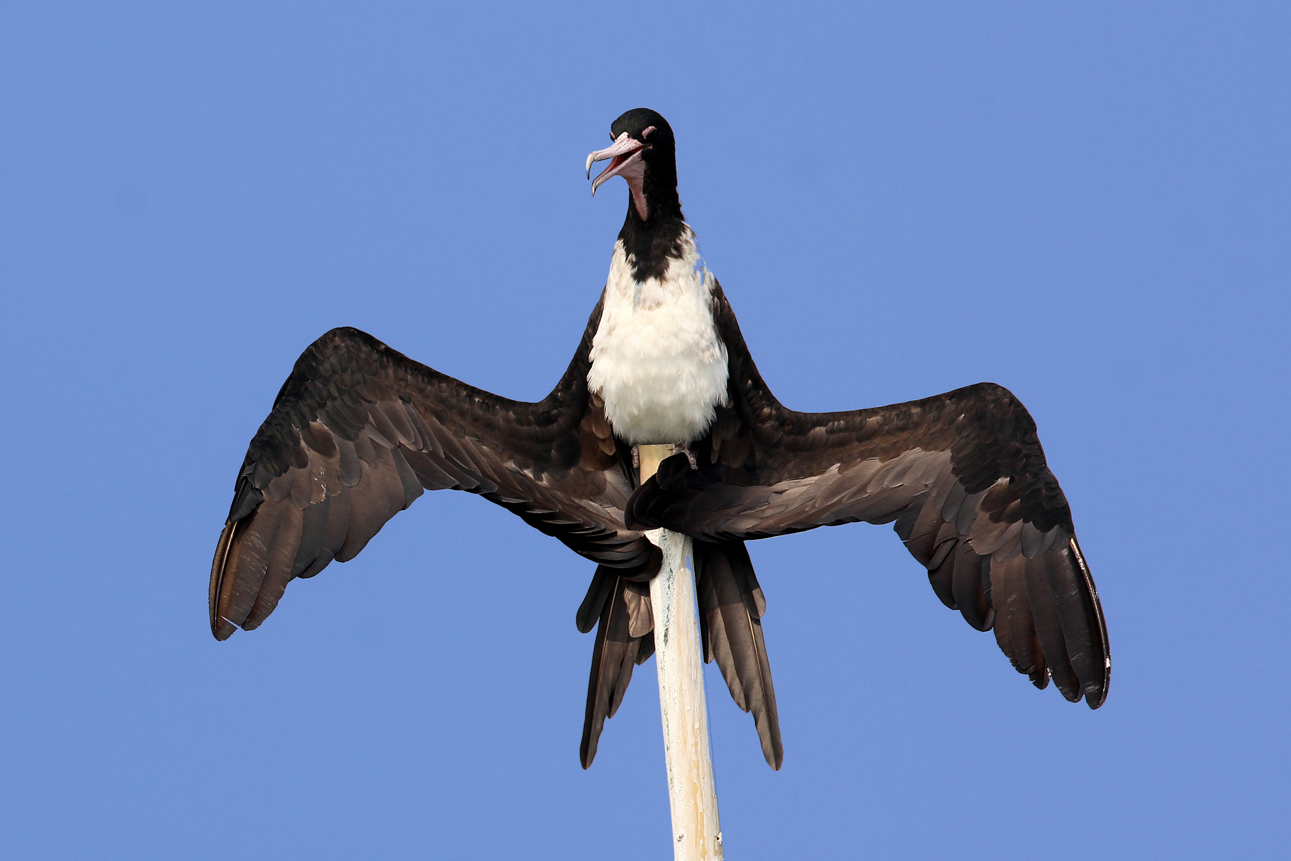 Sunbath photograph of Christmas Island Frigatebird from Indonesia